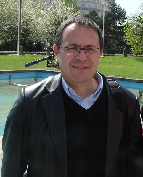 Tomasz Sianecki, a Polish TV journalist.